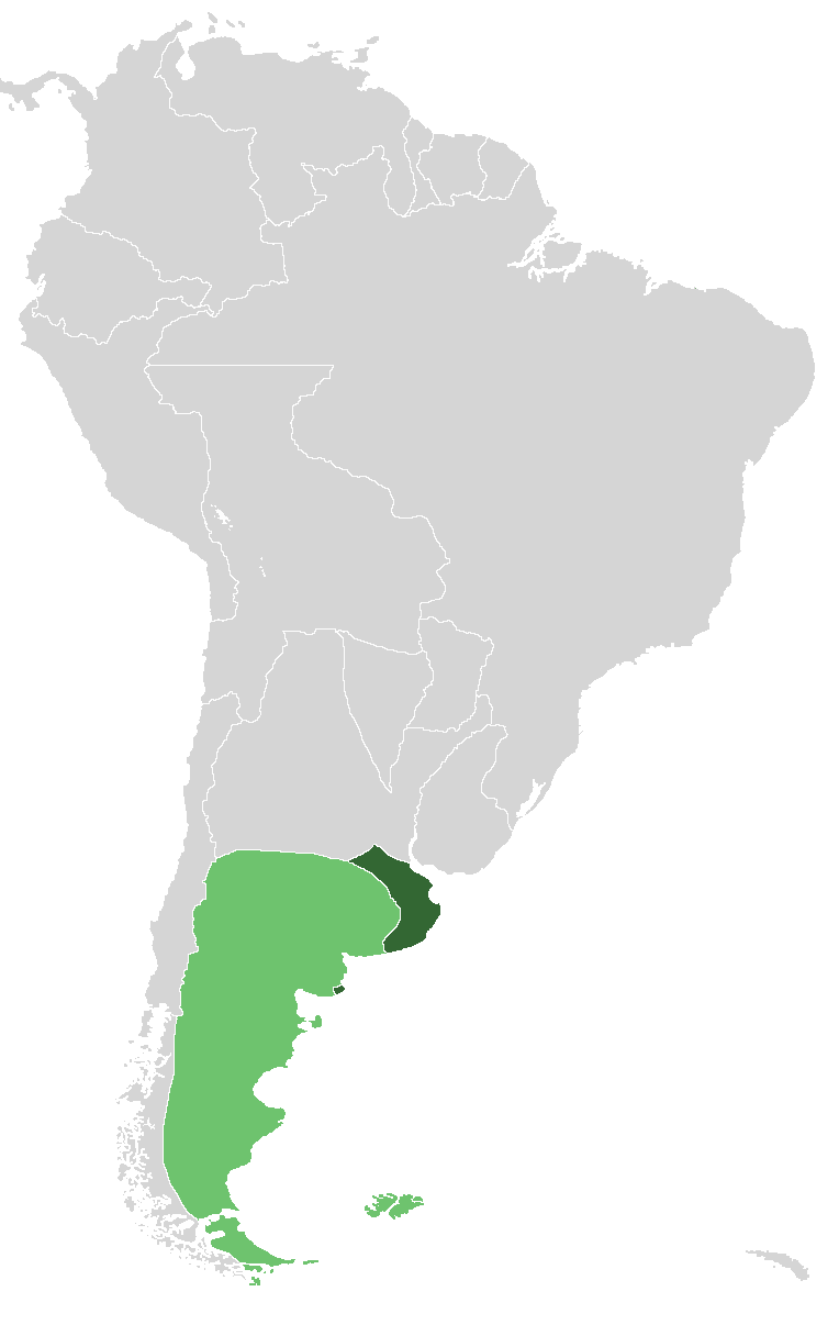 State of Buenos Aires (1852)